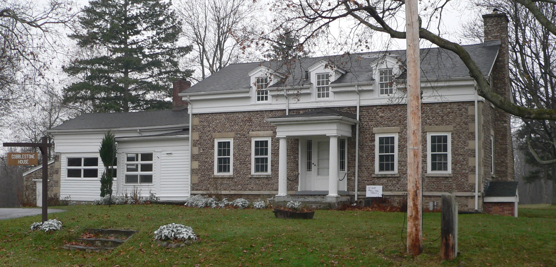 Stewart Cobblestone Farmhouse, located on Douglas Road not far south of its junction with Canfield Road in Mendon, New York.